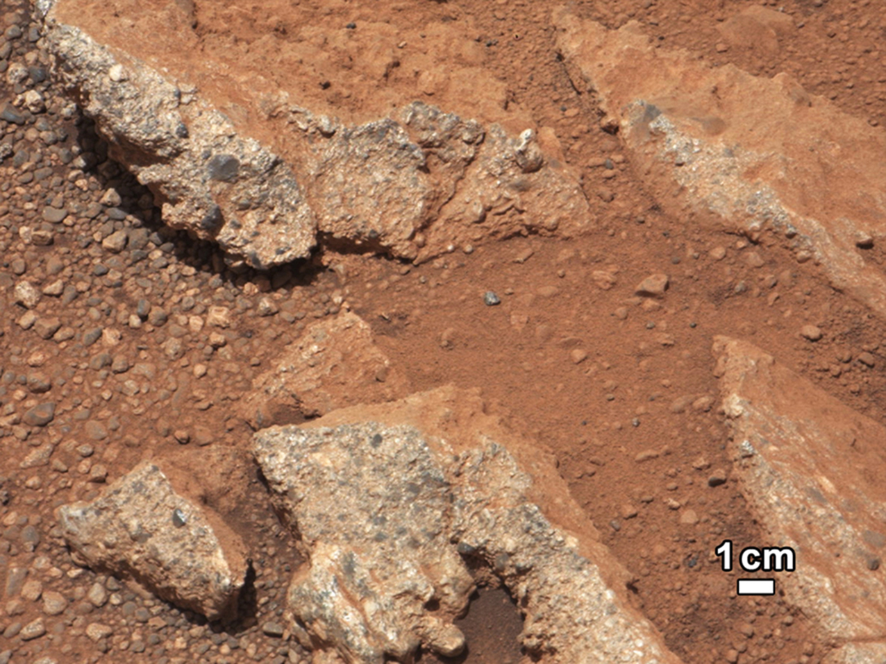 In this image from NASA's Curiosity rover, a rock outcrop called Link pops out from a Martian surface that is elsewhere blanketed by reddish-brown dust. The fractured Link outcrop has blocks of exposed, clean surfaces. Rounded gravel fragments, or clasts, up to a couple inches (few centimeters) in size are in a matrix of white material. Many gravel-sized rocks have eroded out of the outcrop onto the surface, particularly in the left portion of the frame. The outcrop characteristics are consistent with a sedimentary conglomerate, or a rock that was formed by the deposition of water and is composed of many smaller rounded rocks cemented together. Water transport is the only process capable of producing the rounded shape of clasts of this size.